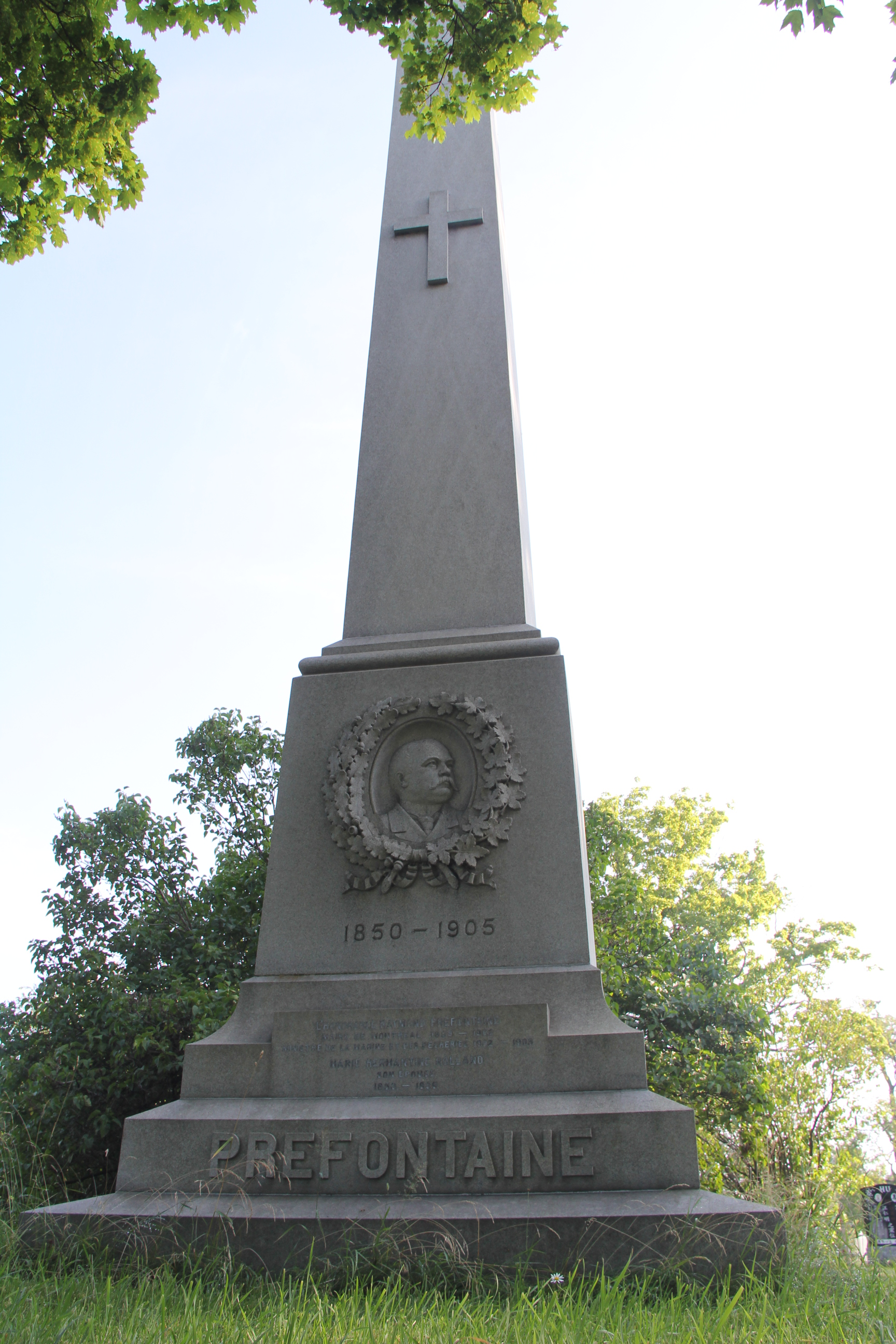 Raymond Préfontaine’s tombstone, Notre-Dame-des-Neiges Cemetery, Montreal.